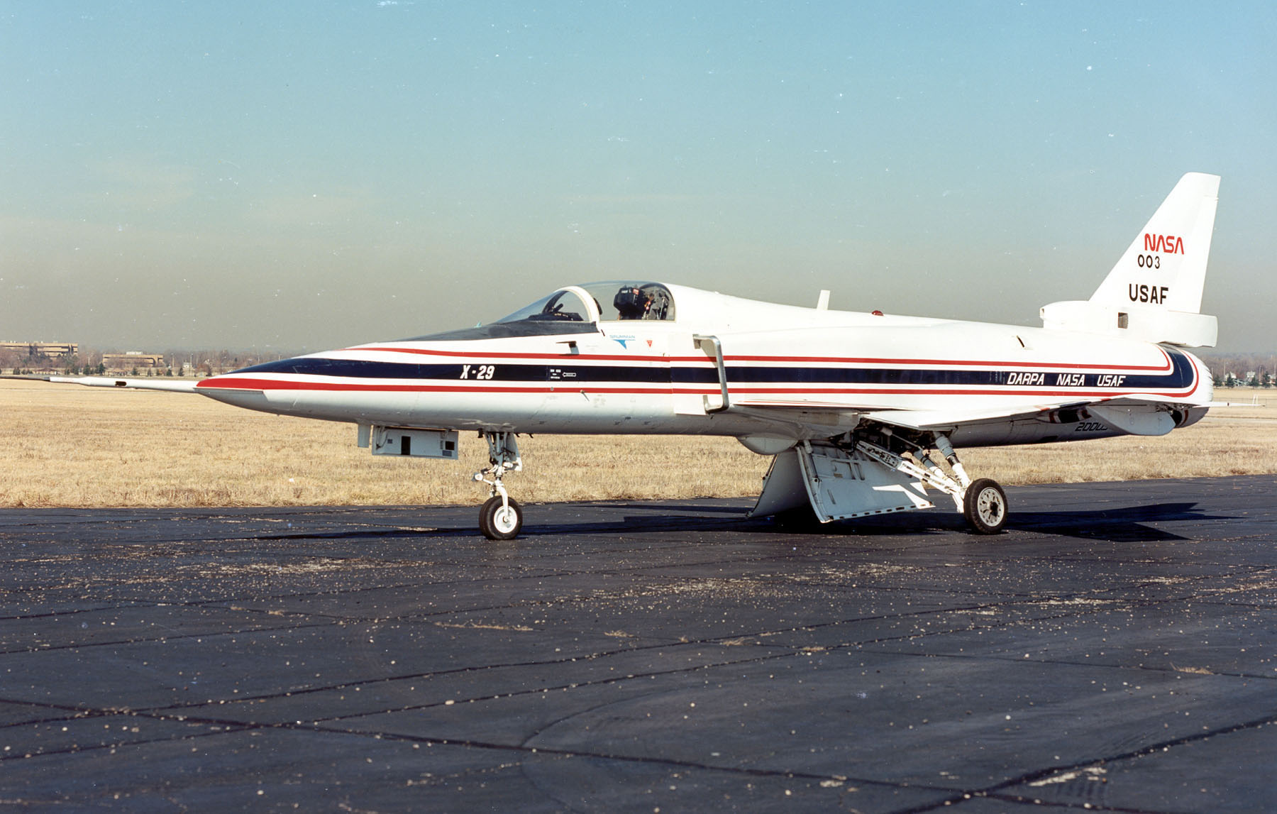 Grumman X-29A at the National Museum of the United States Air Force.